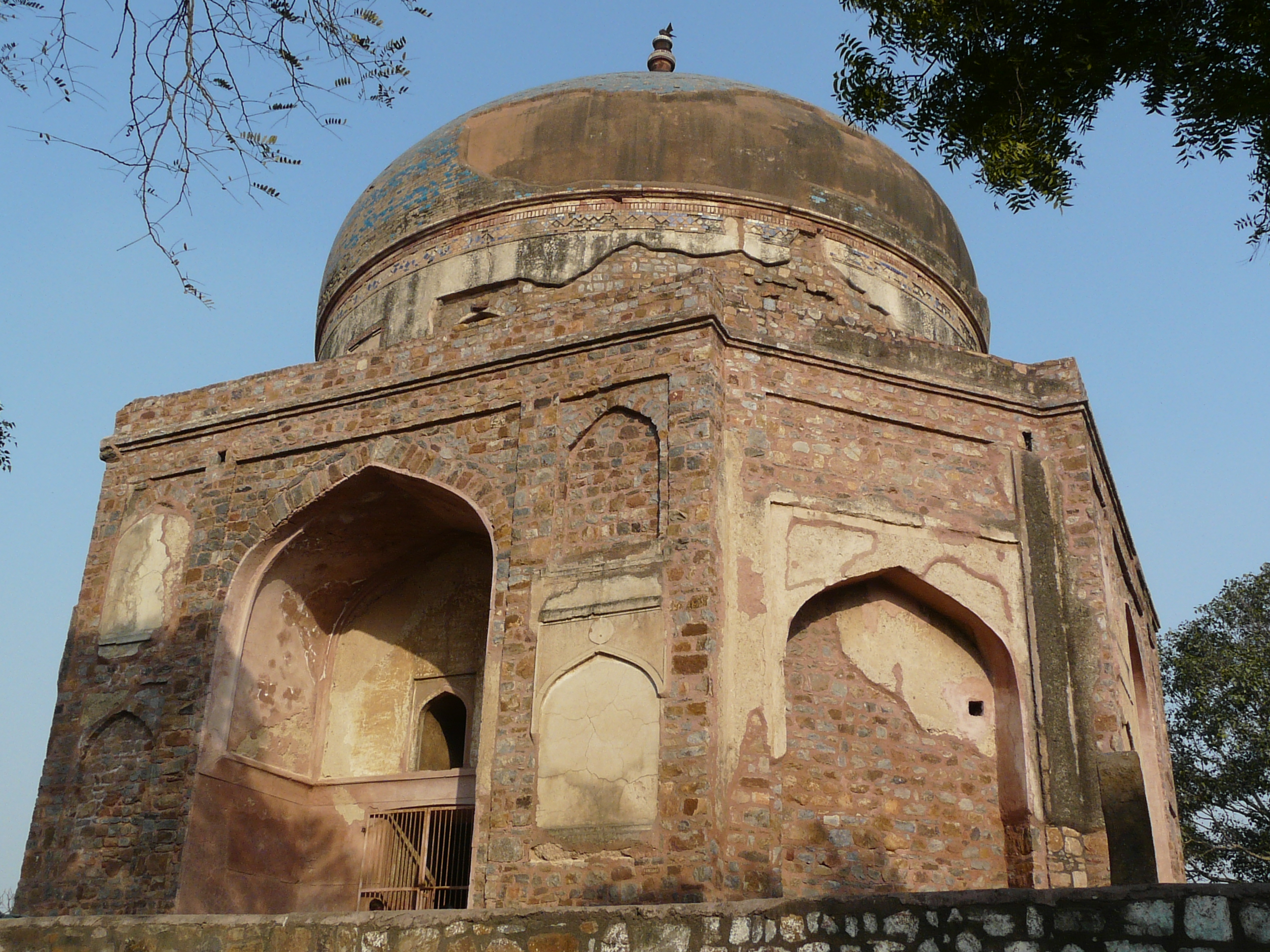 Nila Gumbad (Blue Dome), Delhi, post restoration. Built ca 1625, by Abdul Rahim Khan-I-Khana, son of Bairam Khan also a courtier in Mughal Emperor, Akbar's court, for his servant Miyan Fahim. Fahim, who not only grew up with his son, but later also died alongside one of Rahim's own sons, Feroze khan, while fighting against the rebellion of Mughal general Mahabat Khan in 1625/26, during the reign of Jahangir.